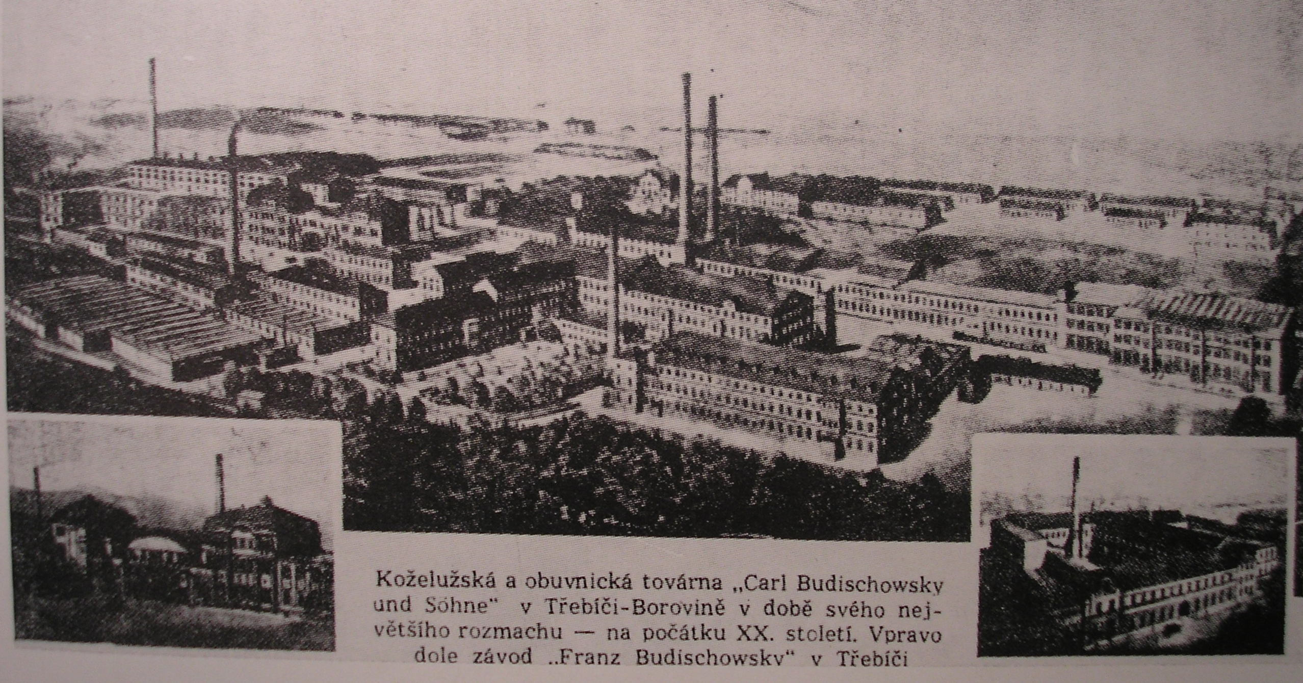 Factory for the production of footwear in Třebíč during its boom in the early 20th century